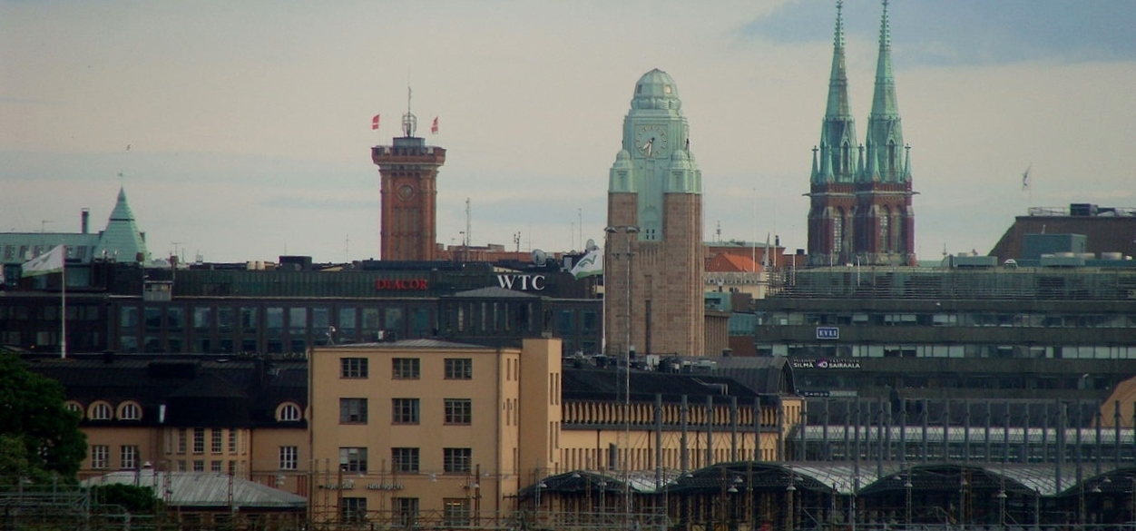 Helsinki Central railway station